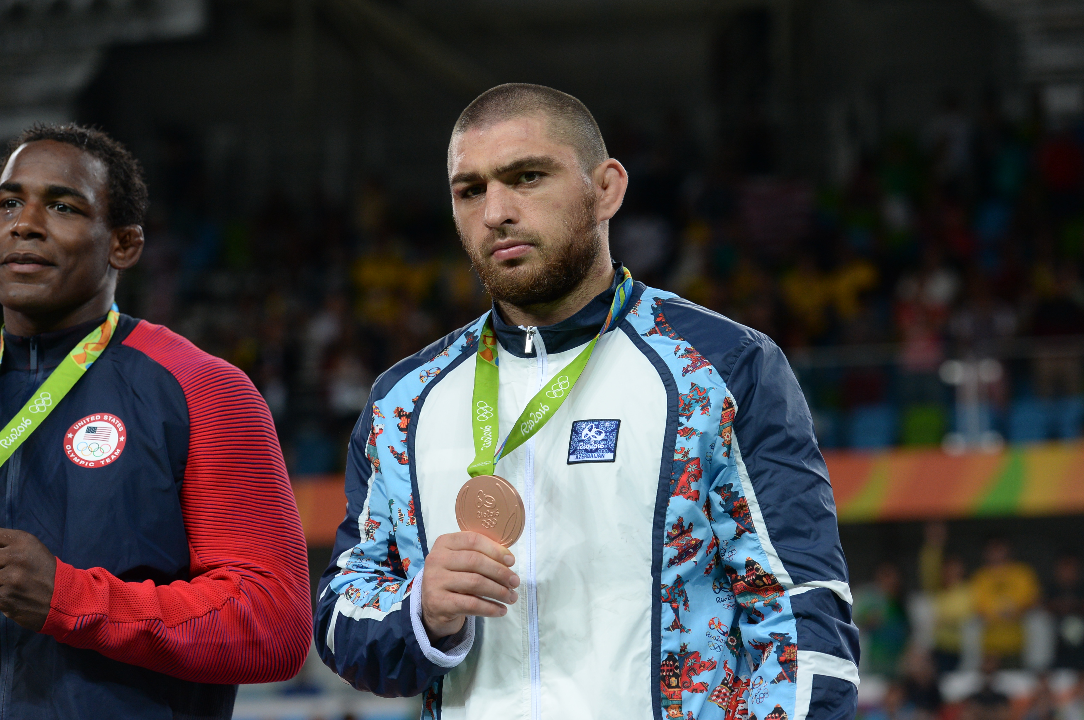 2016 Summer Olympics, Men's Freestyle Wrestling 86 kg awarding ceremony